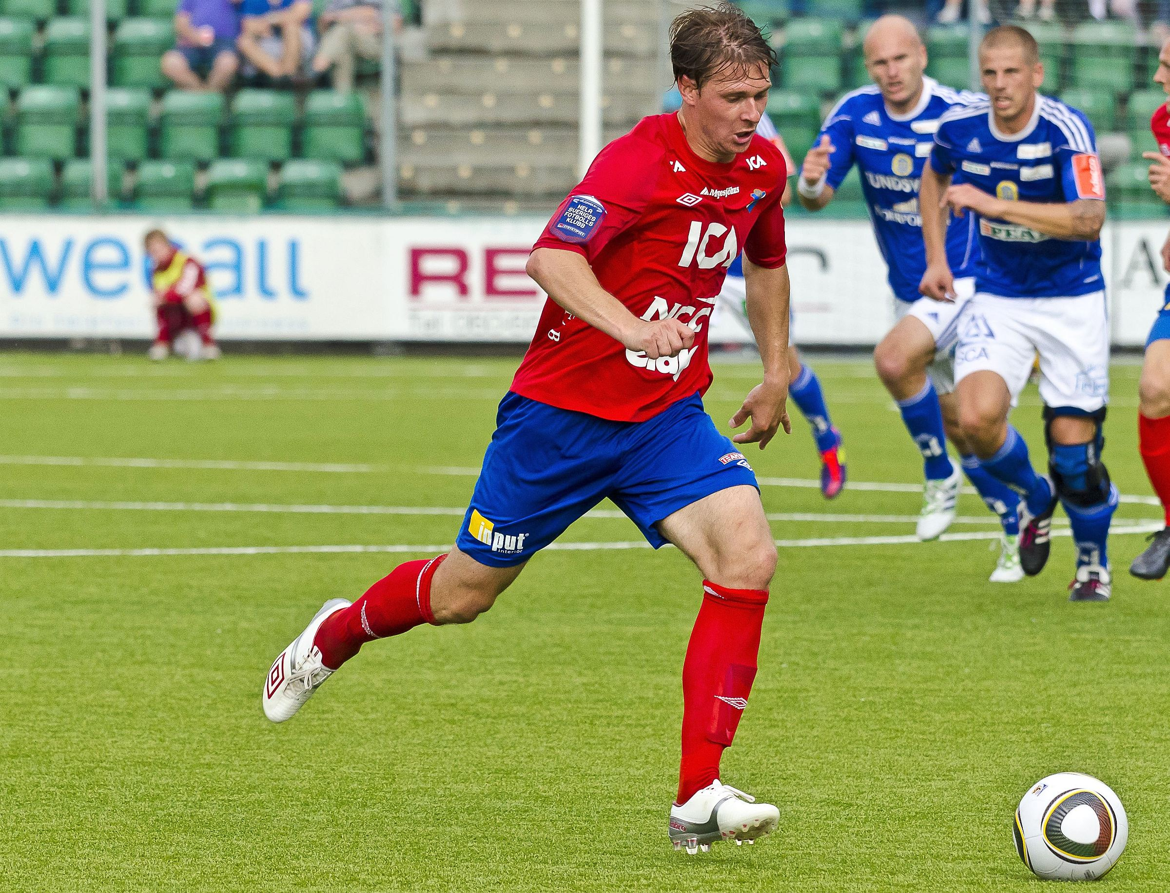 Freddy Söderberg attacking in the away game against Sundsvall in July 2011.